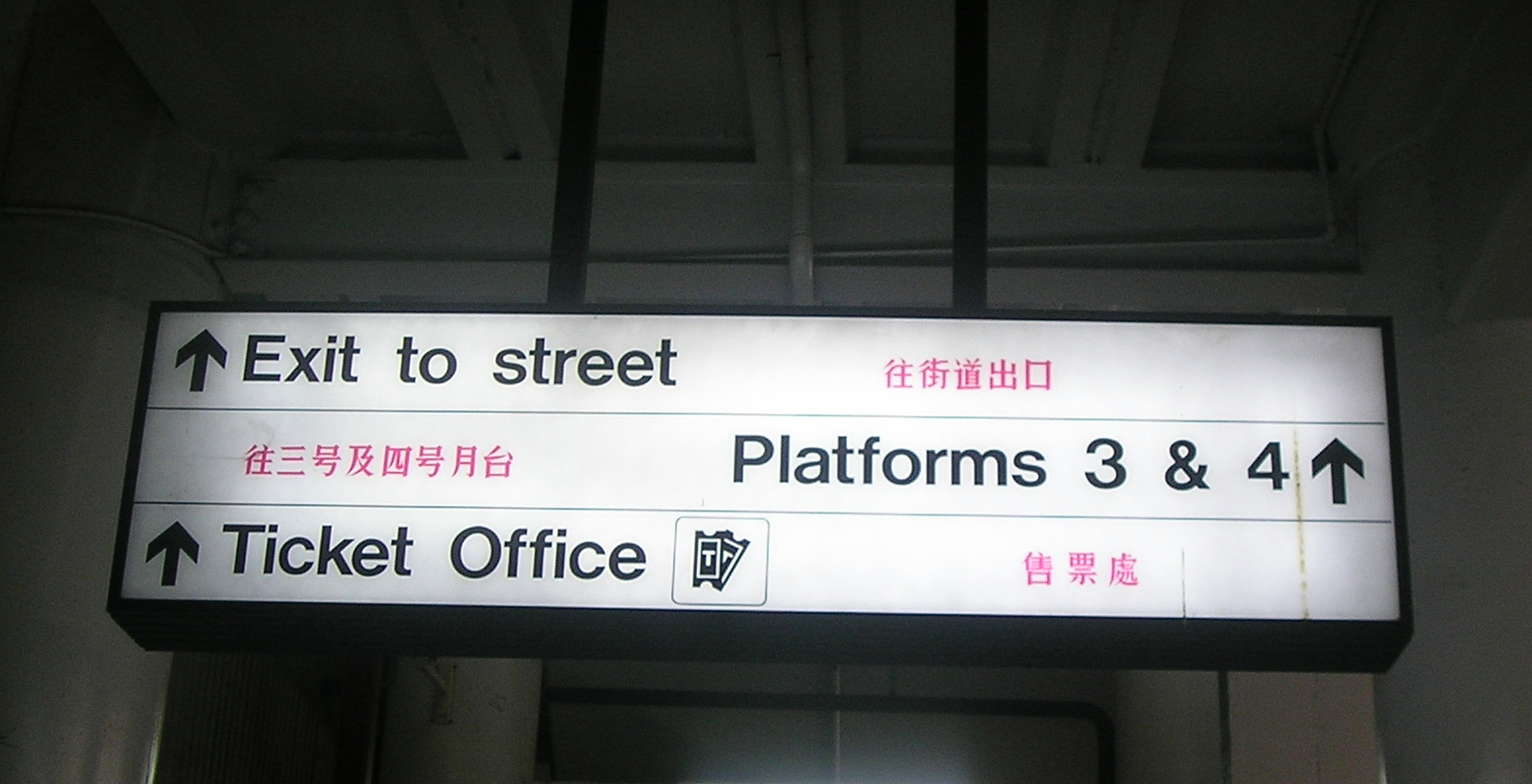 A sign on Brunswick Street railway station in Brisbane's Chinatown in Fortitude Valley.